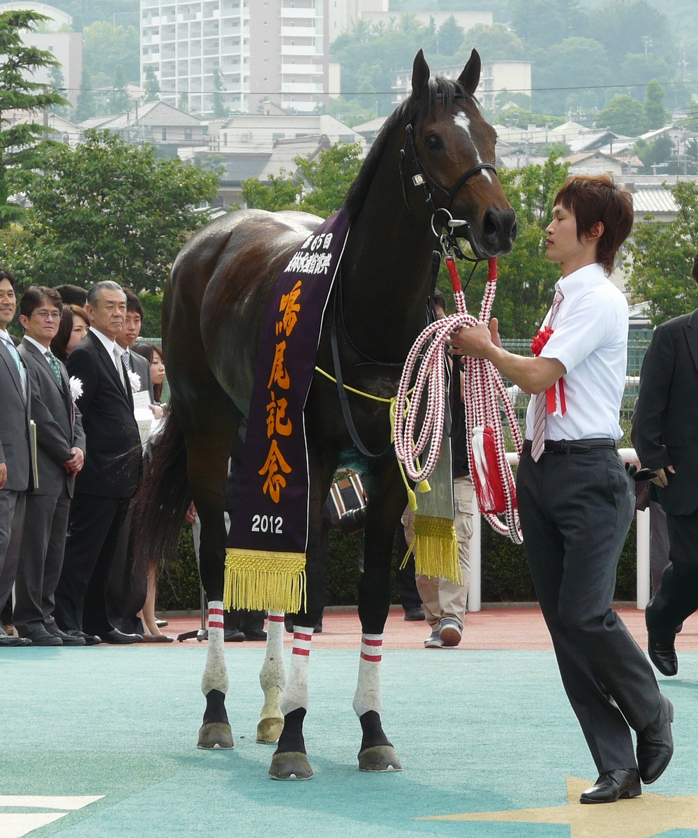 To-the-glory20120602-2